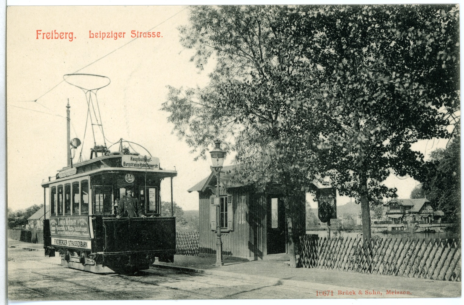 This postcard is from publisher Brück & Sohn in Meißen ( This postcard has a unique number 10671 and is available in a higher resolution at the publisher. This images was uploaded in a cooperation project between Wikipedians and the publisher.